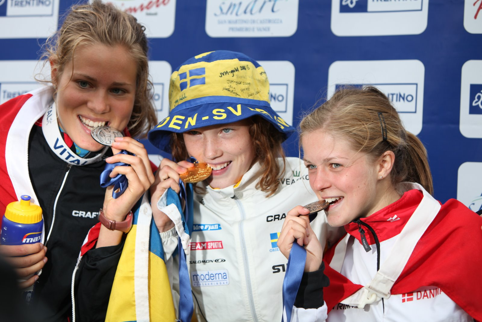 Winners of JWOC 2008 middle 1) Tove Alexandersson (SWE) 2) Britt Ingunn Nydal (NOR) 3) Ida Bobach (DEN)